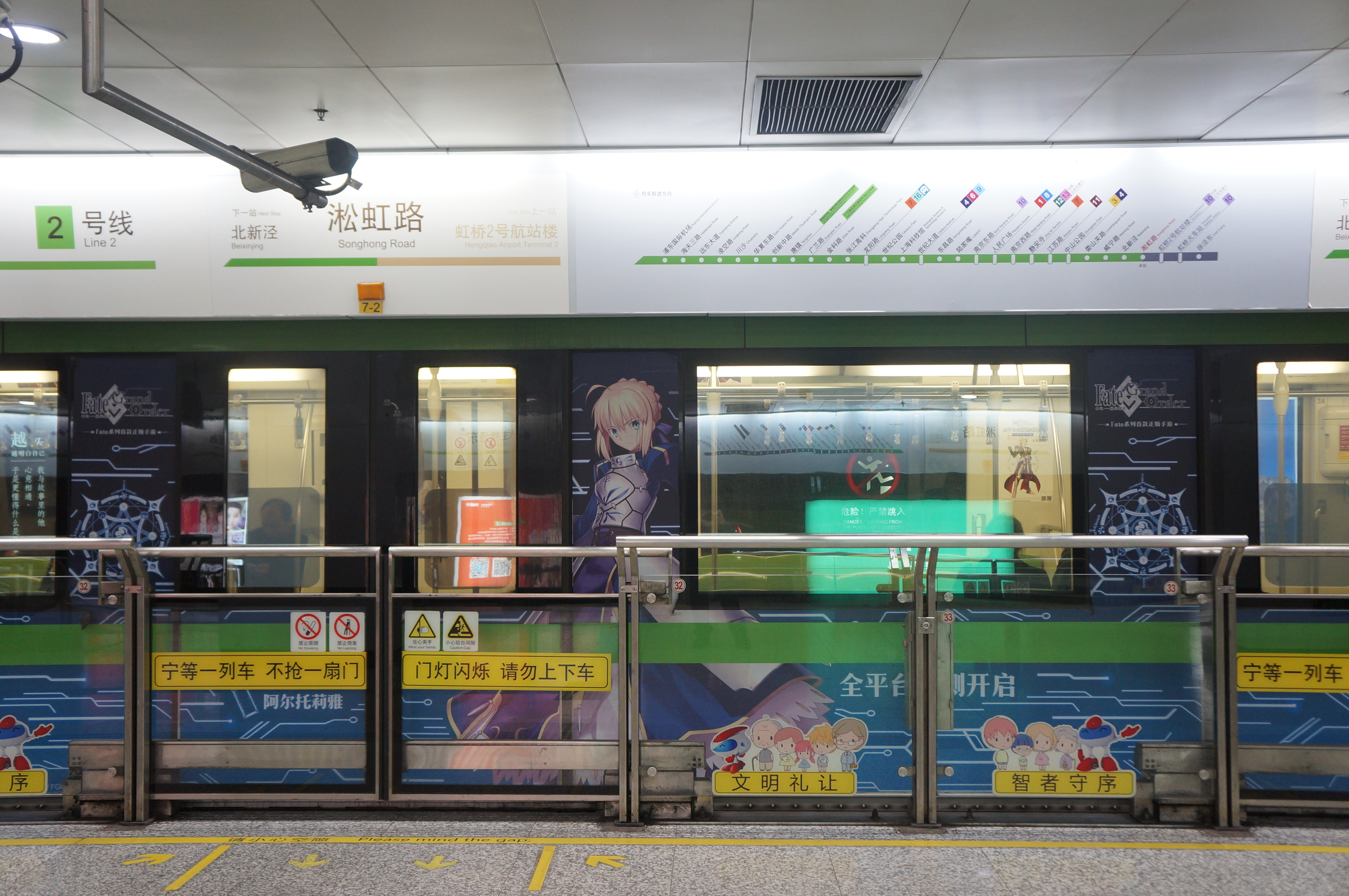 201611 Altria Pendragon (Saber) on AC08 at Songhong Road Station